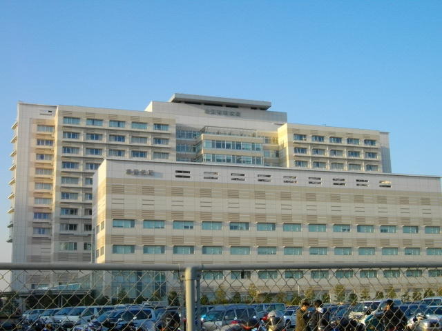 Cancer Institute Hospital Ariake